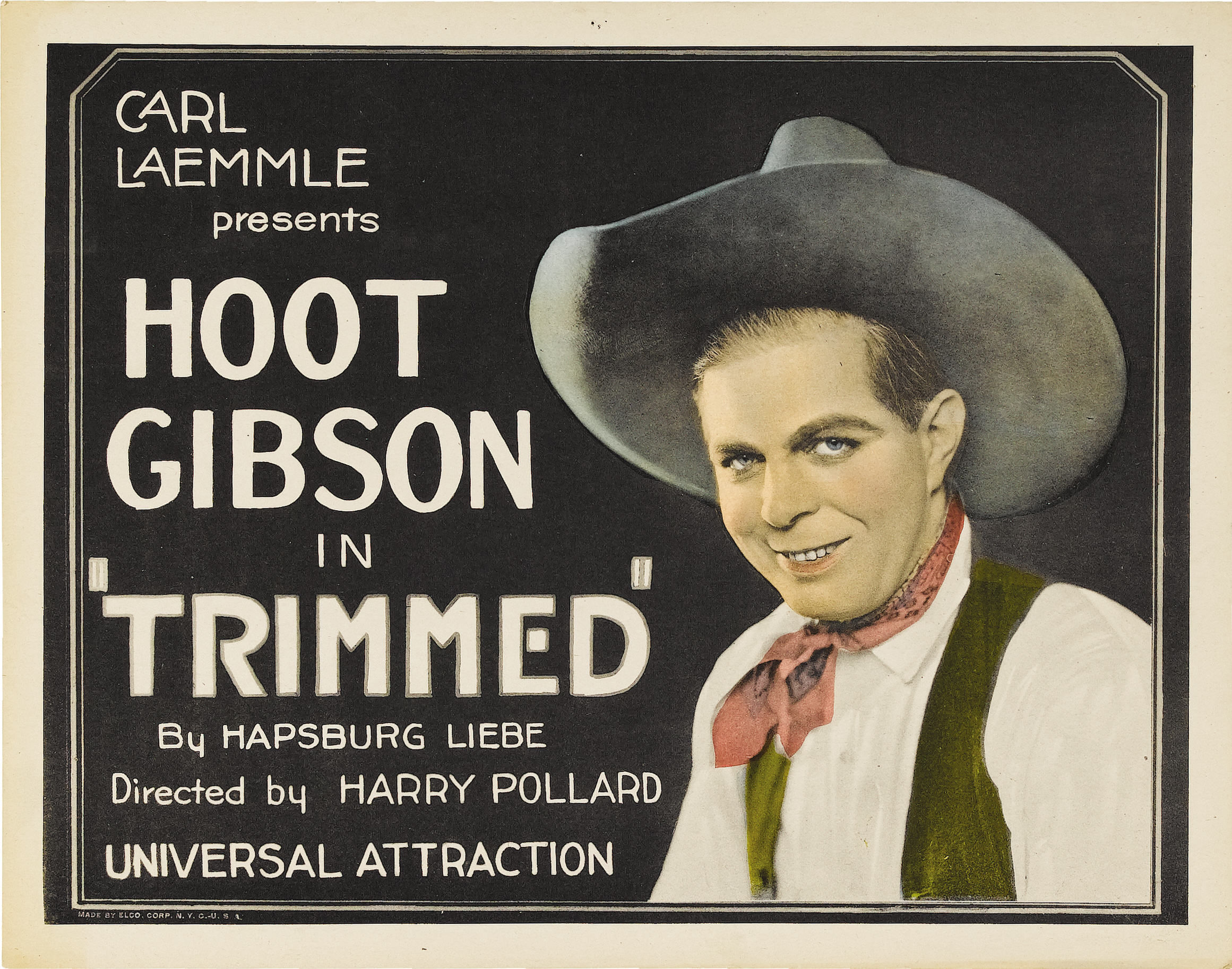 Film poster for the American western film Trimmed (1922) with Hoot Gibson.